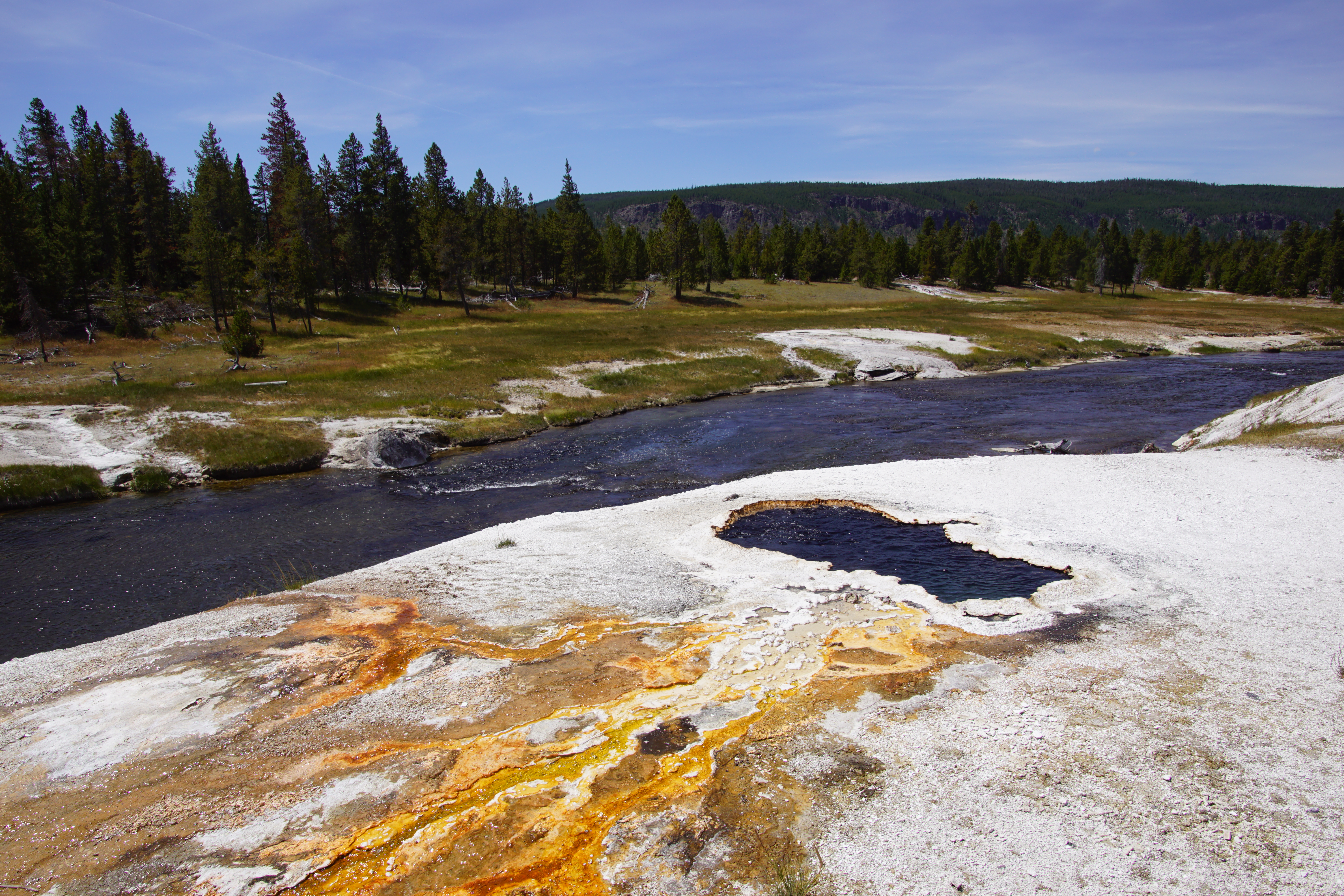 Firehole River near South Scalloped Spring